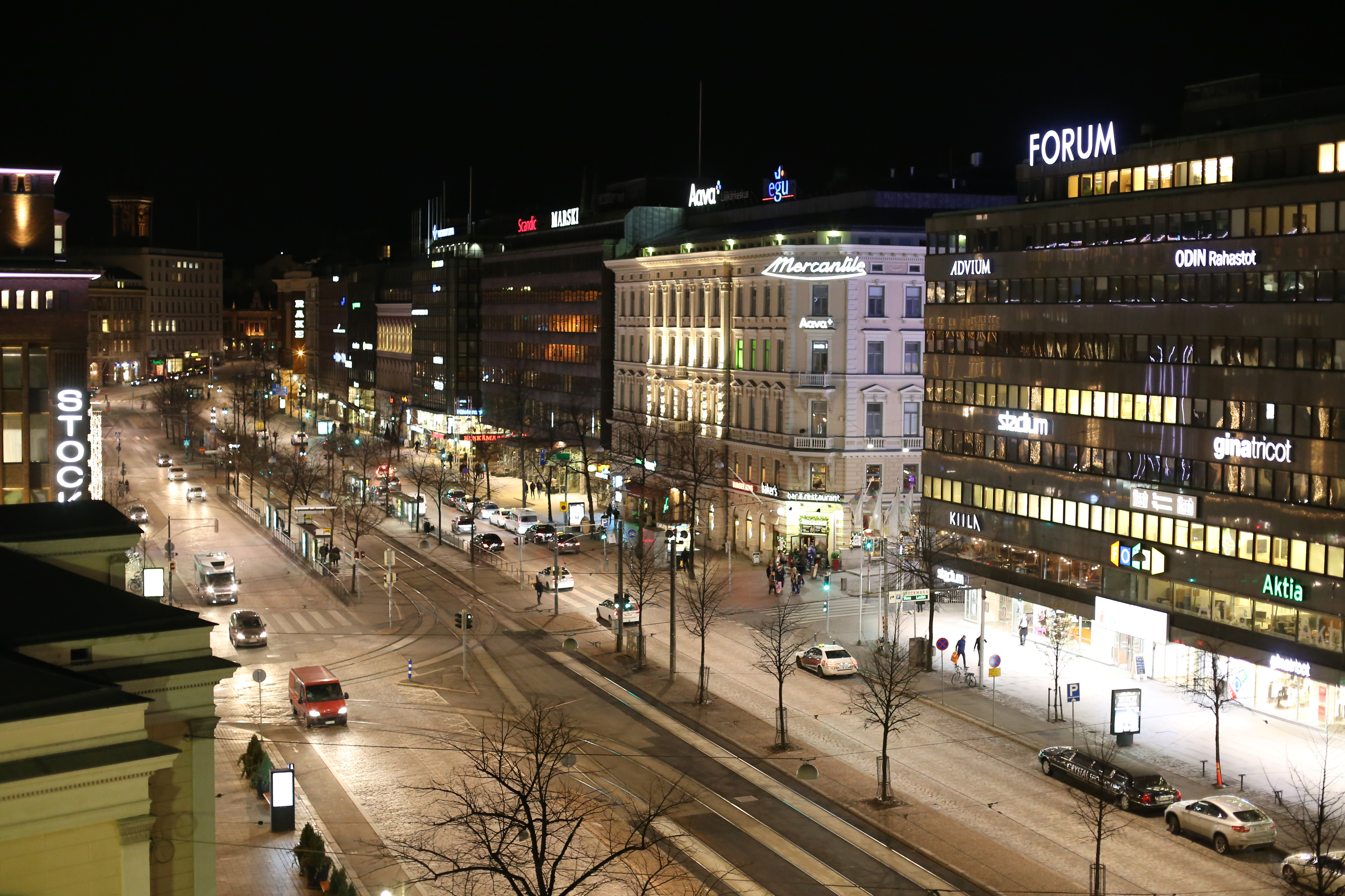 Mannerheimintie, Helsinki, in the night. Photo taken from the New Student House balcony.